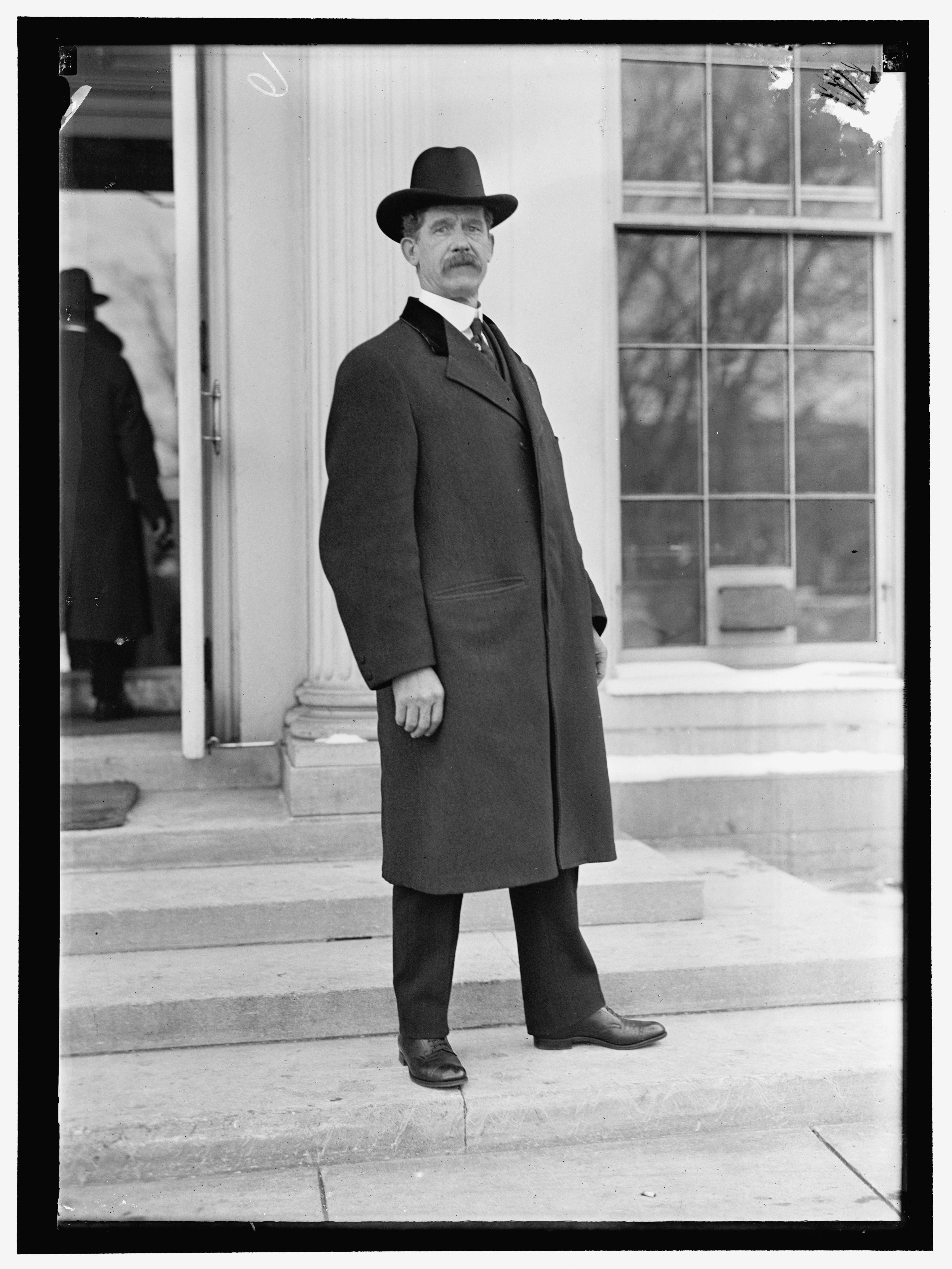 YAGER, DR. ARTHUR. GOV. GEN. OF PUERTO RICO